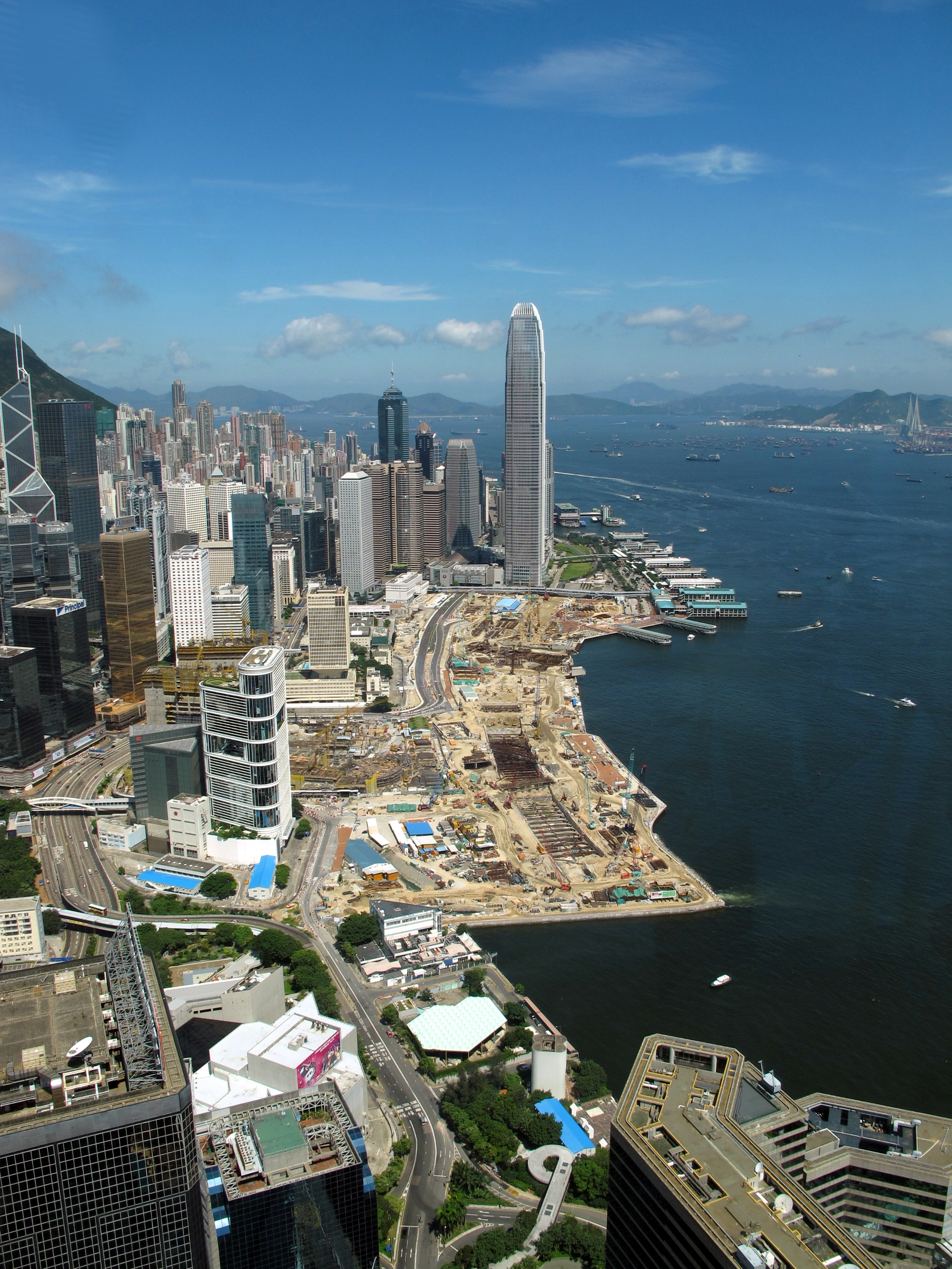 Central Reclamation Phase 3